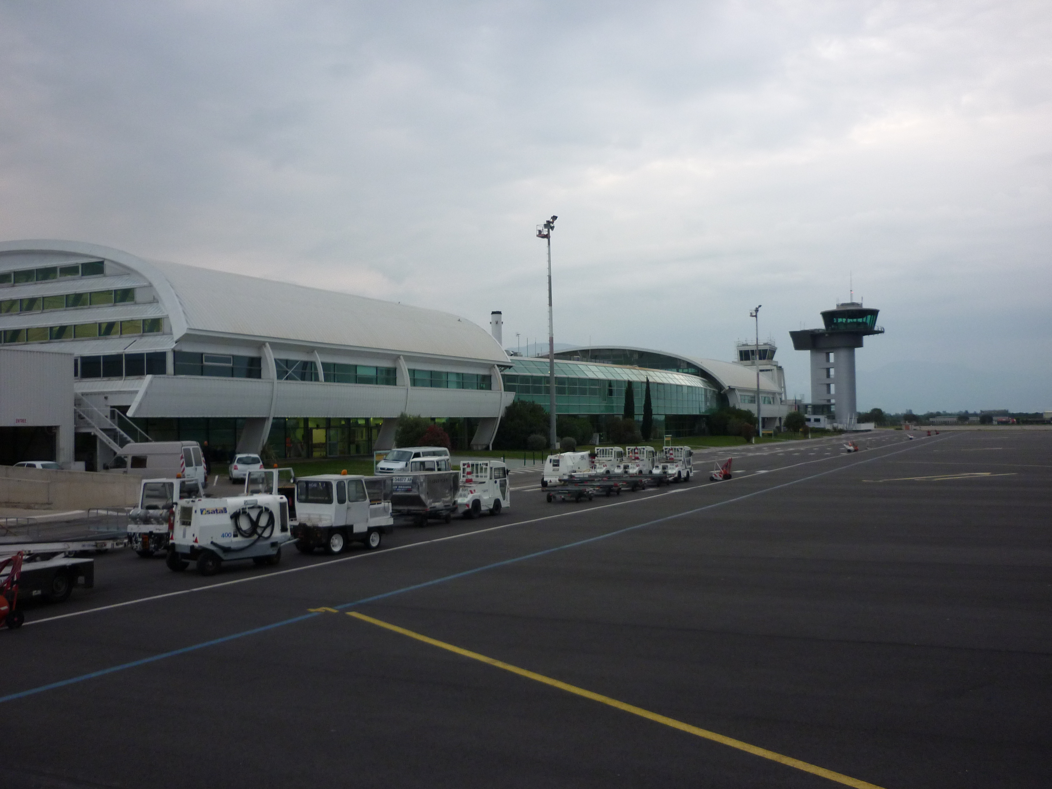 The passenger terminal of the Bastia International Airport, Corsica, France, seen from the apron.